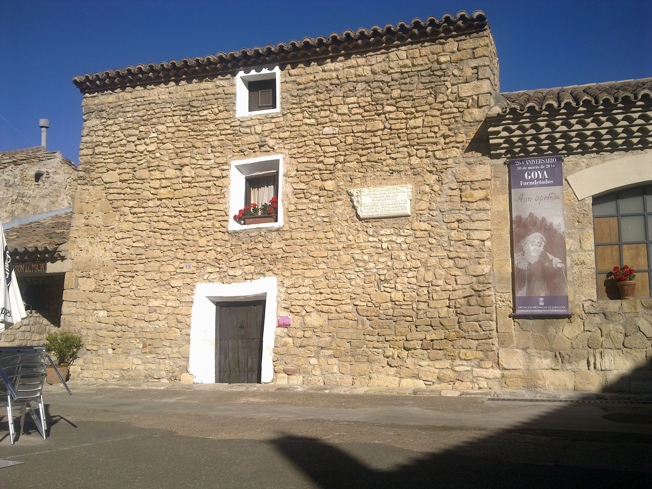 Born house of Francisco de Goya at Fuendetodos